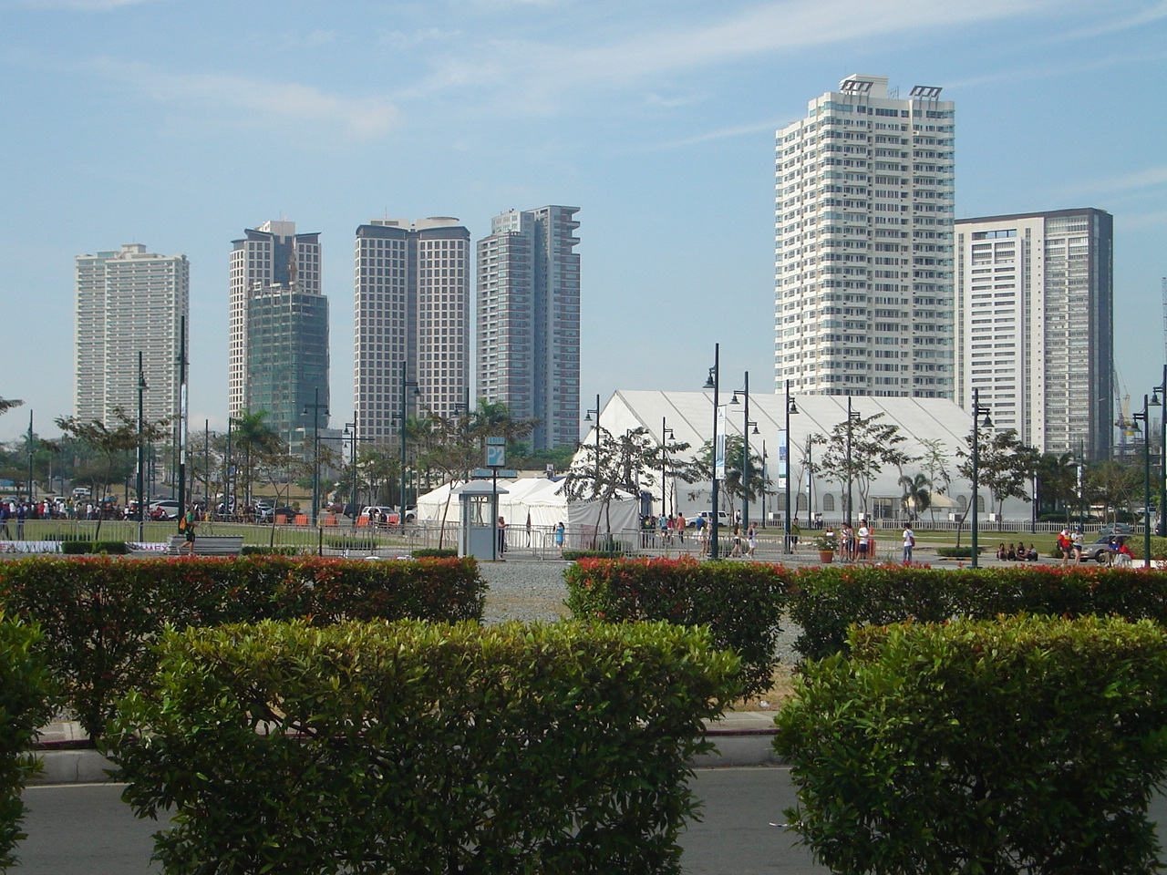 Fort Bonifacio in Taguig City